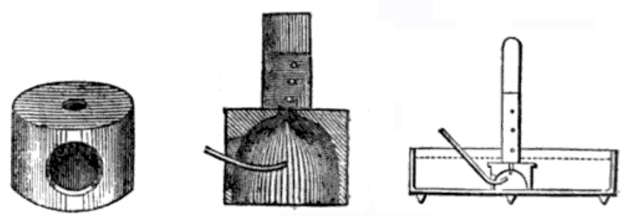 This is a picture of a beehive shelf, a piece of equipment used in a pneumatic trough.